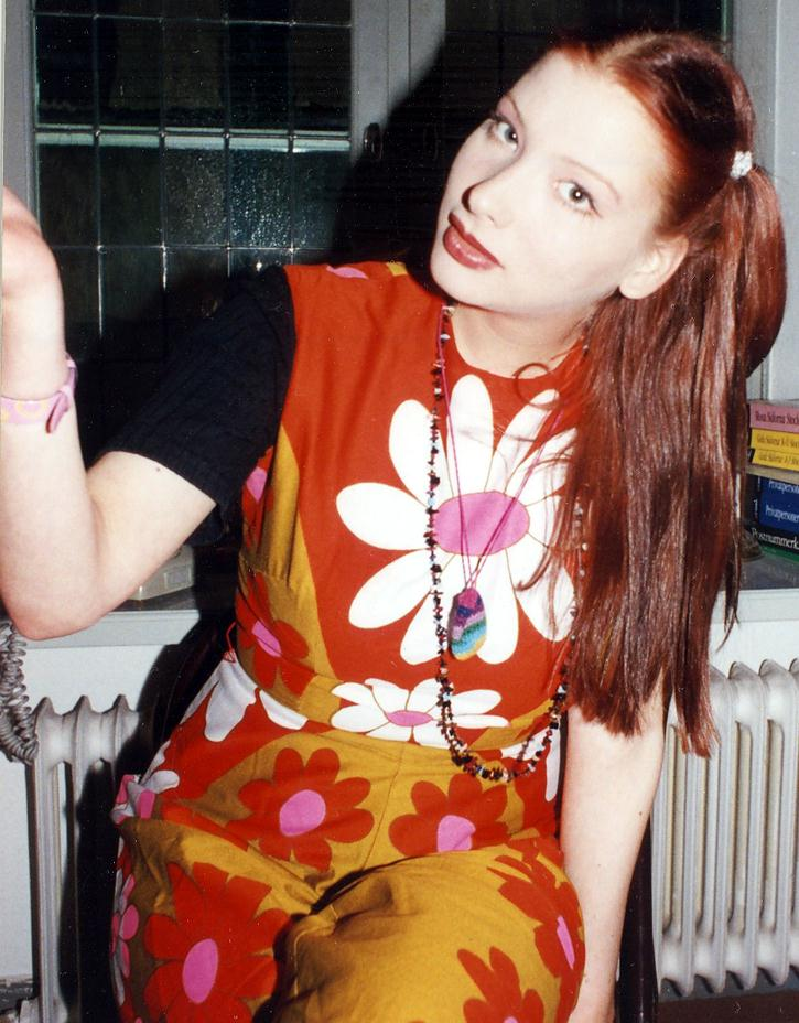 Swedish photo model Alma Ufo (Alma Jansson), as released by image creator Lars Jacob ProdPlace: Stage Freight, Skeppsbron 24, Stockholm, Sweden